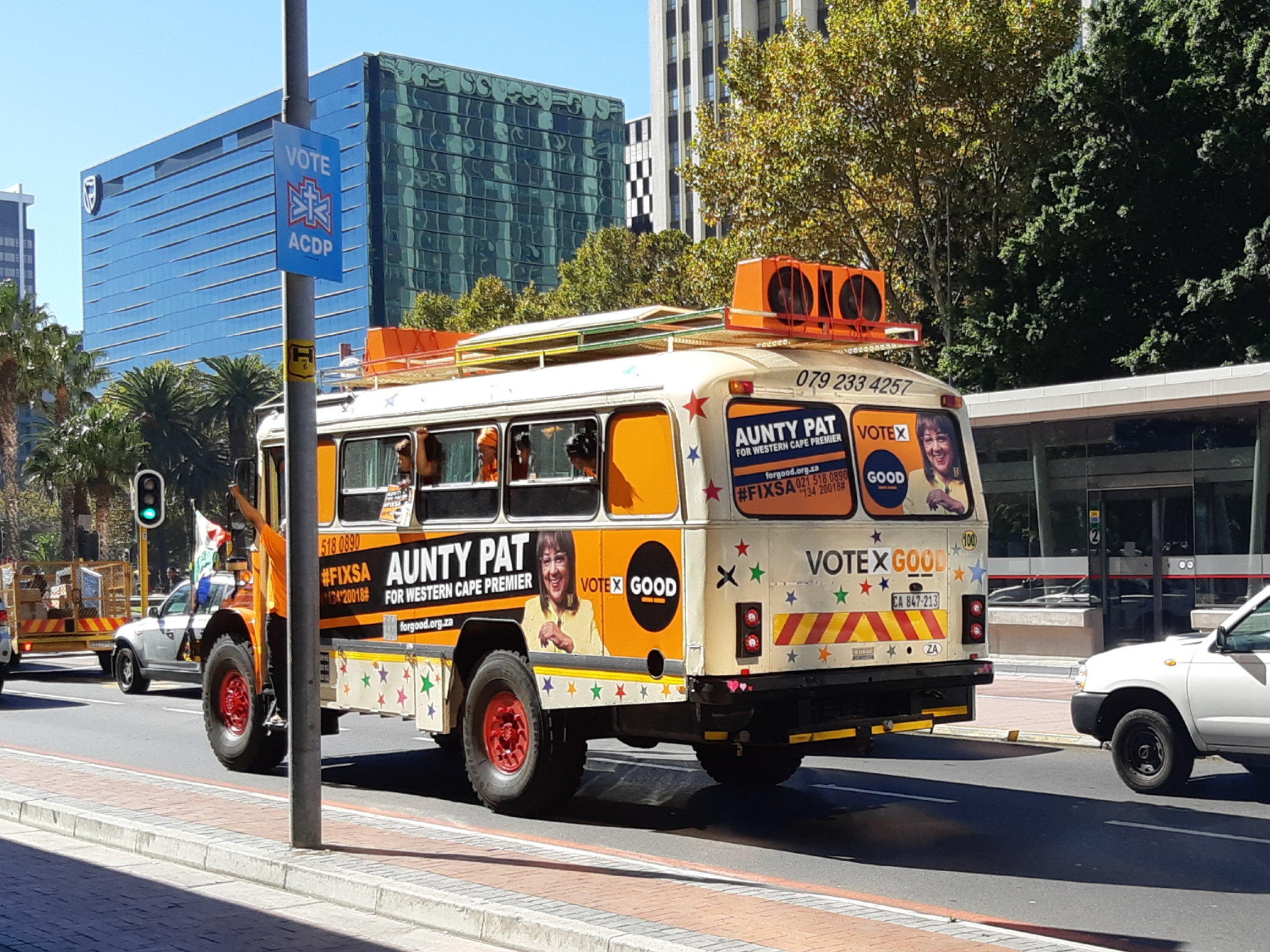 A GOOD party campaign bus in Cape Town during the 2019 South African elections. An African Christian Democratic Party election poster can be seen on the lamp post in front of the bus.